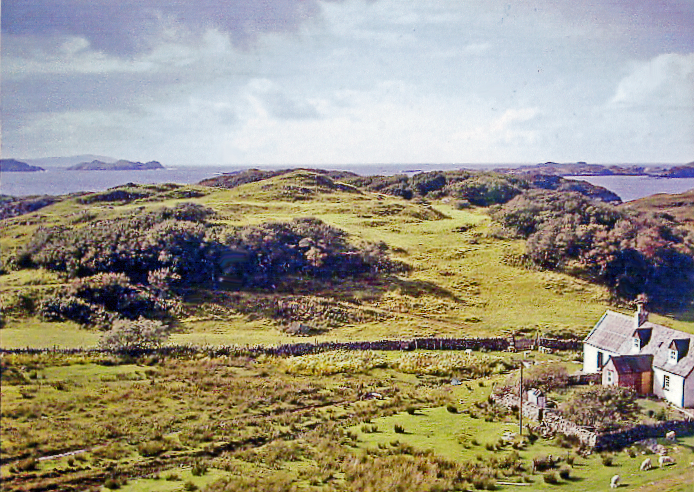 Edrachillis Bay and islets from A894 near Duartmore Bridge, 1962. Islands include Meall Mor and Oldany, with probably the point of Stoer on the horizon. (I am uncertain of precise location within 500 yards, but this shows the stunning view 50 years ago no doubt still unchanged).